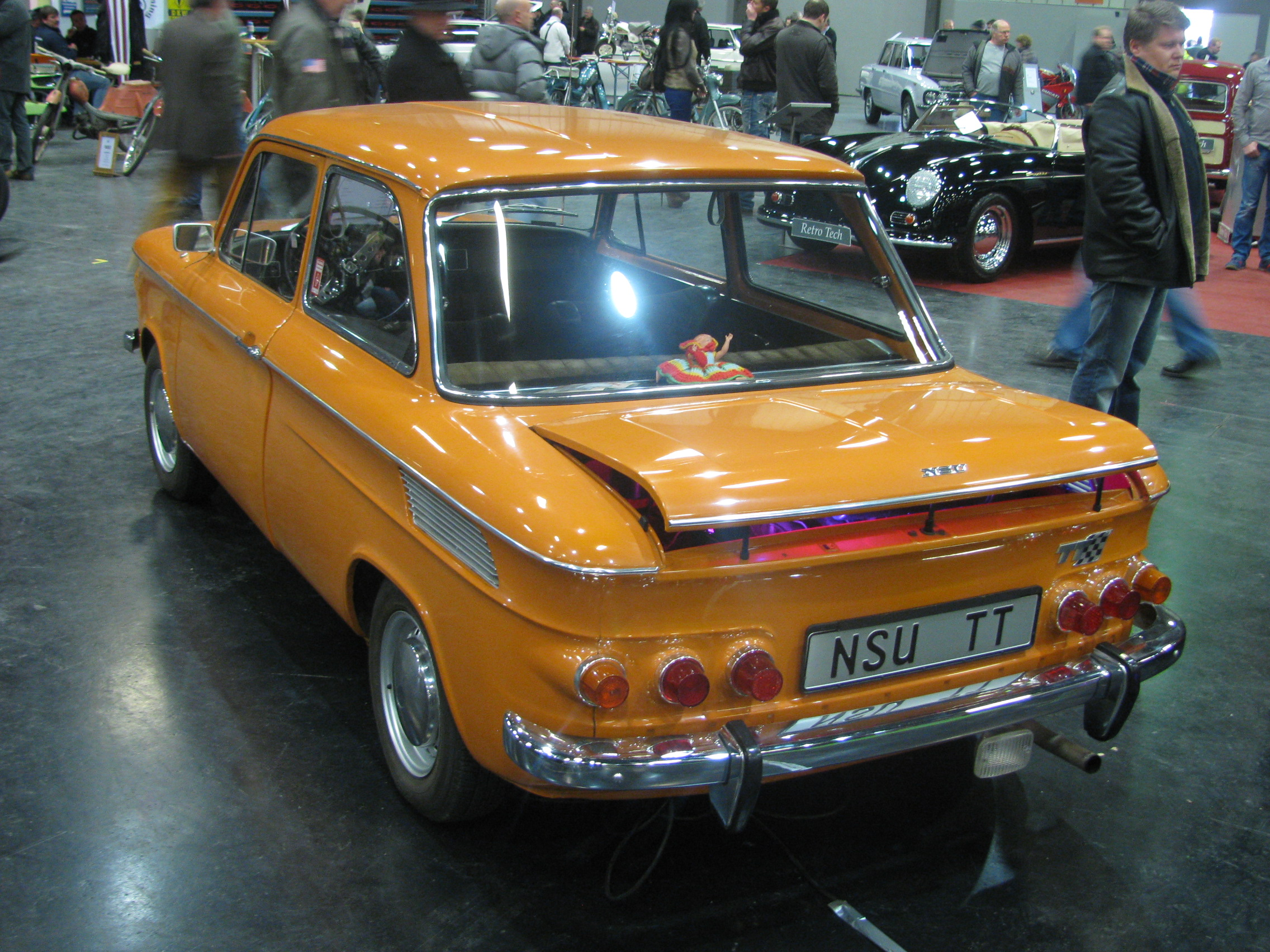 NSU 1200 TT from 1969. Powered by a four-cylinder, 65-hp engine of which displacement is 1 200 cm³. Top speed 150 km/h. MotoTechnica Augsburg 2012.